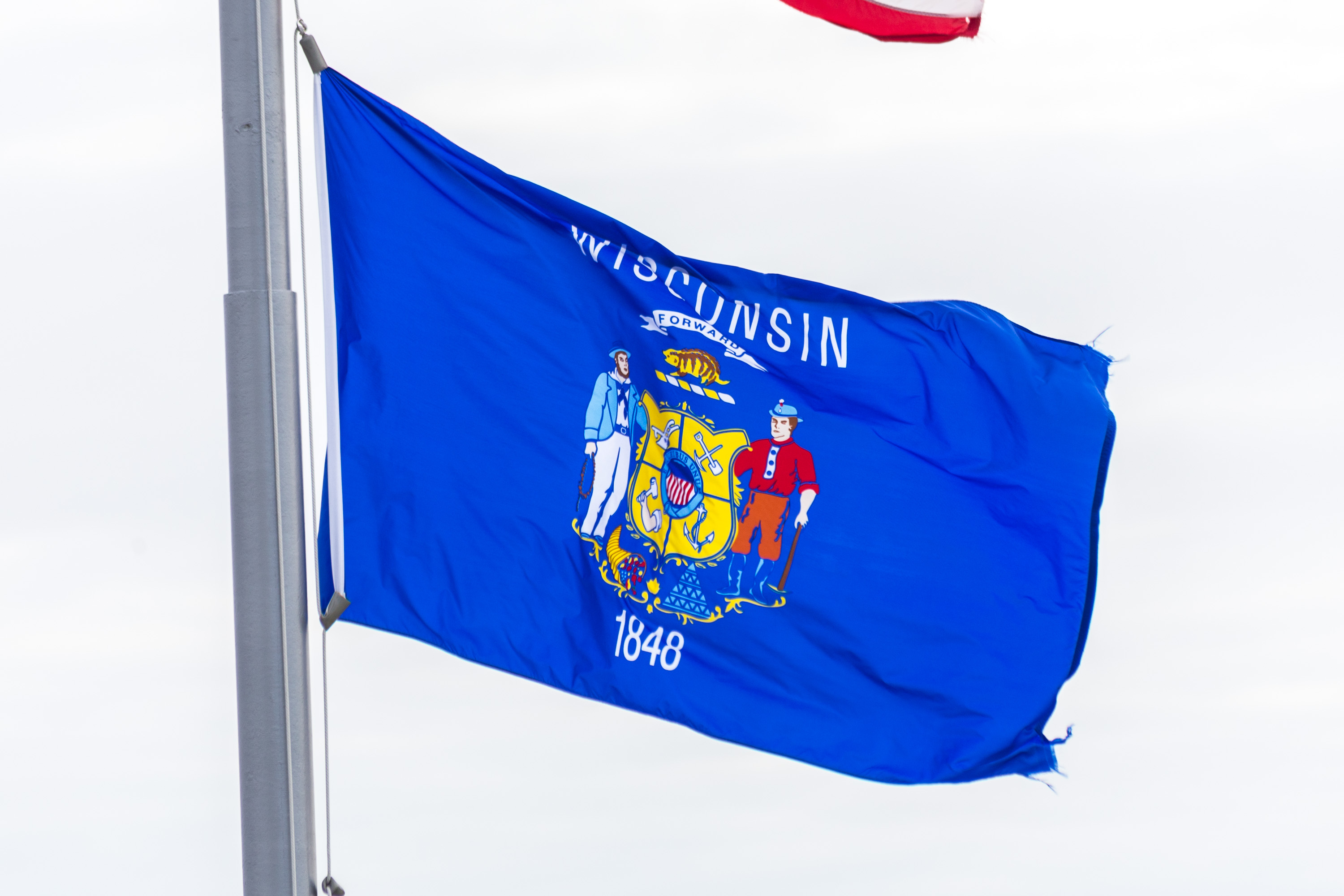 State flag flies over the Wisconsin State Capitol, Madison, Wisconsin